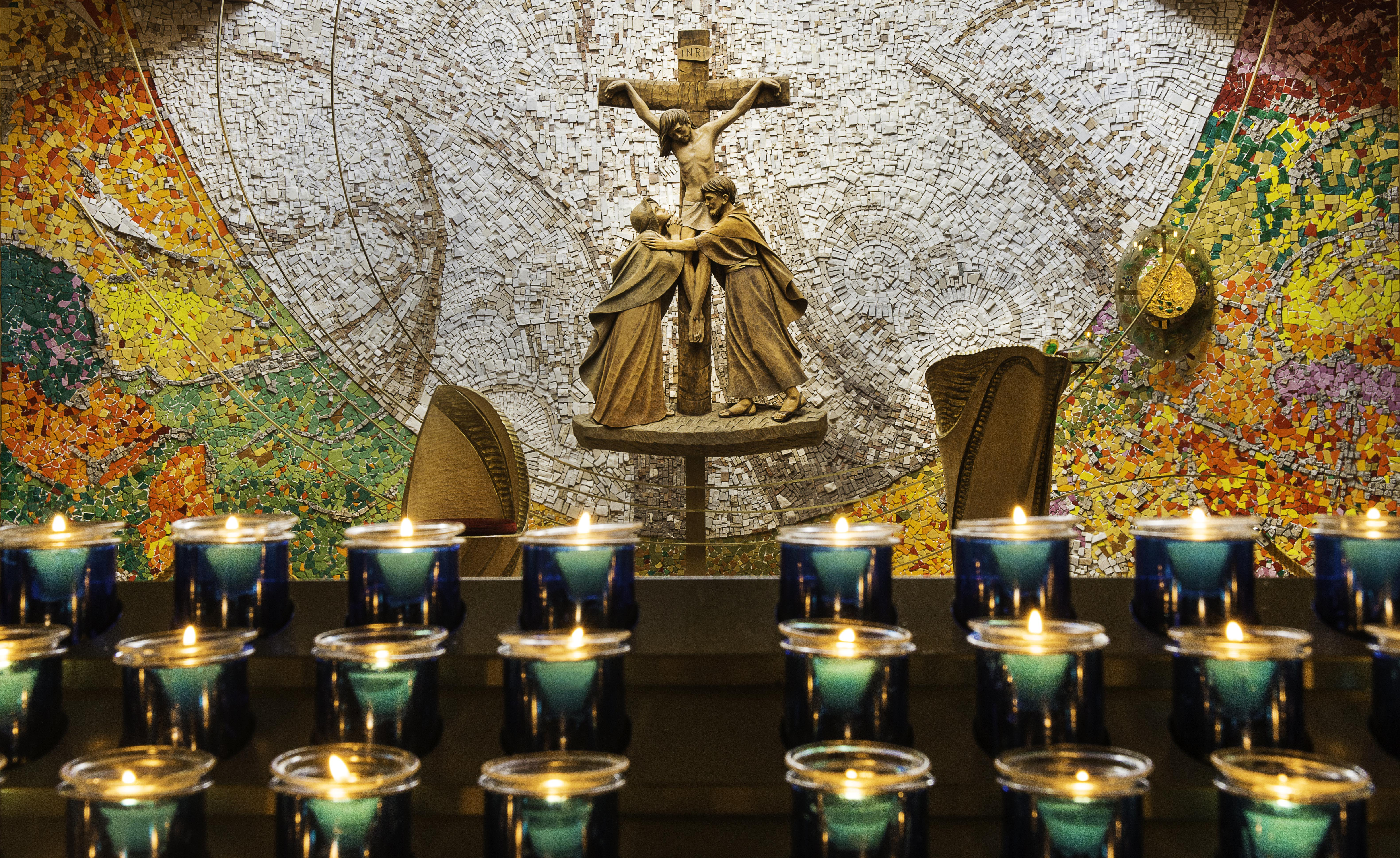 Mosaic in Chapel of Reconciliation, Knock Shrine